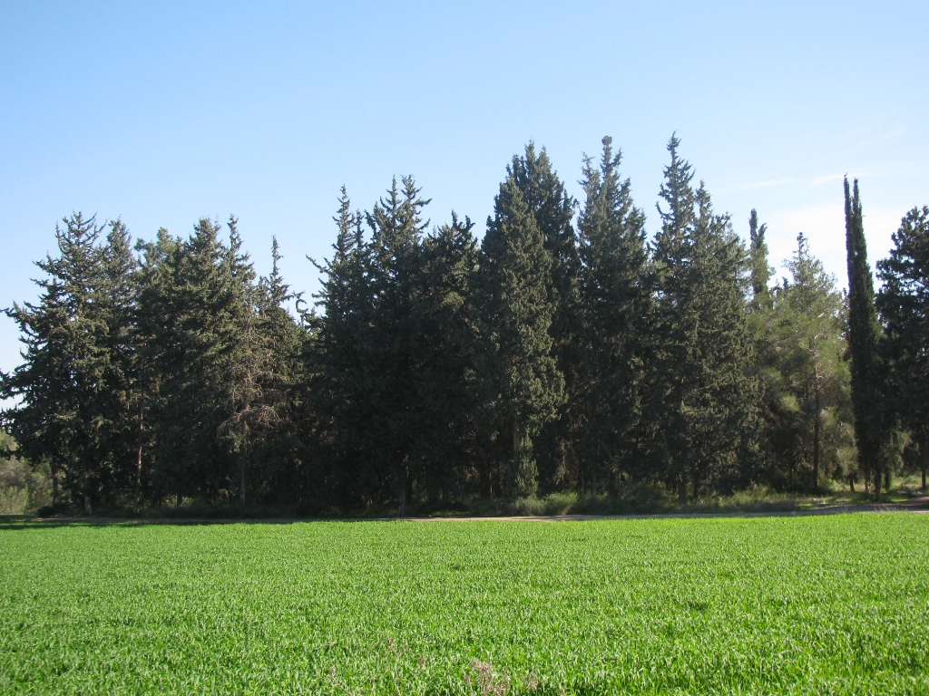 Cultivated fields beside forest trees, pines and cypresses